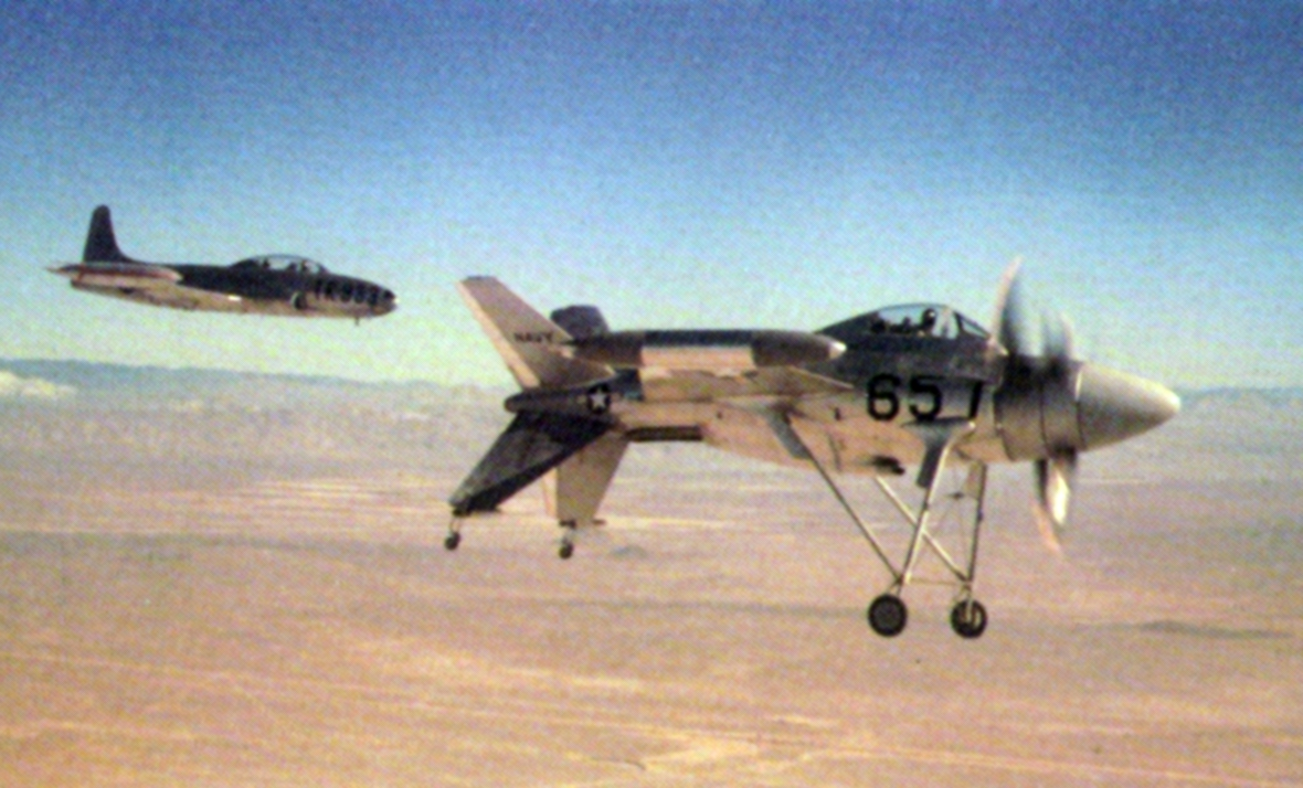 The first U.S. Navy Lockheed XFV-1 (BuNo 138657) in flight at Edwards Air Force Base, California (USA). Note the USAF Lockheed T-33A Shooting Star chase plane.